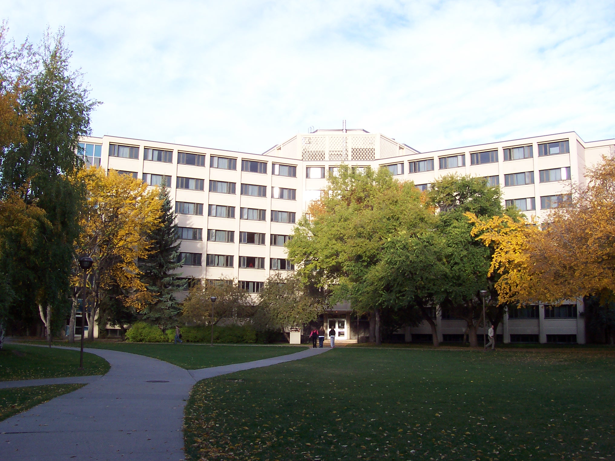 This is an image of Kananaskis Hall at the University of Calgary that I took myself with my digital camera.